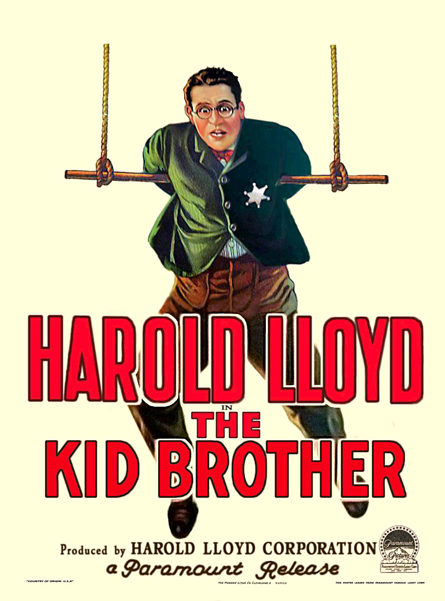 Poster from the American comedy film The Kid Brother (1927).